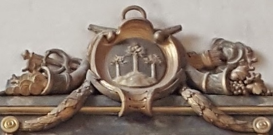 Coat of arms with cornucopia supporters atop epitaph of Abraham Hülphers the Older (1704-1770), Swedish industrialist, and wife, located in Västerås Cathedral, Diocese of Västerås.